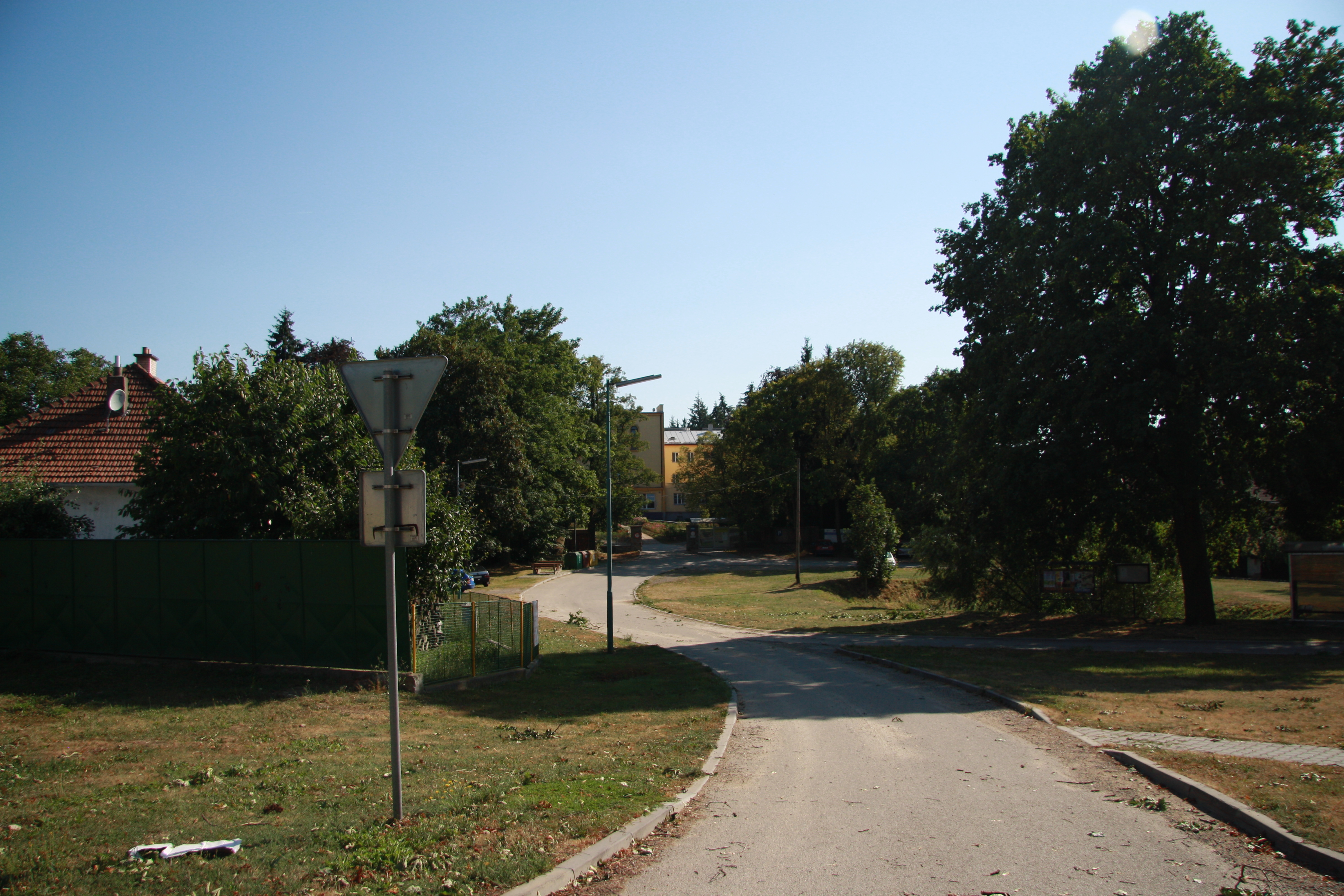 Center of Velký Újezd, Kojatice.